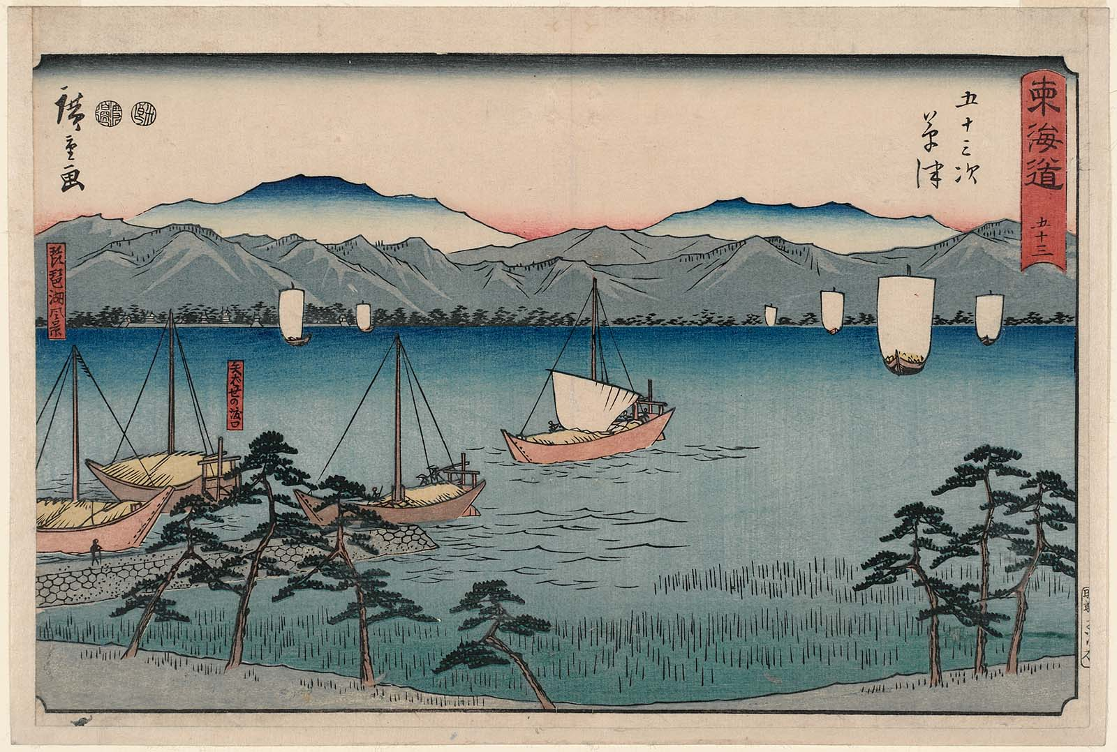 No. 53 - Kusatsu: Yabase Crossing and View of Lake Biwa (Kusatsu, Yabase no watashiguchi, Biwa-ko fûkei), from the series The Tôkaidô Road - The Fifty-three Stations (Tôkaidô - Gojûsan tsugi), also known as the Reisho Tôkaidô